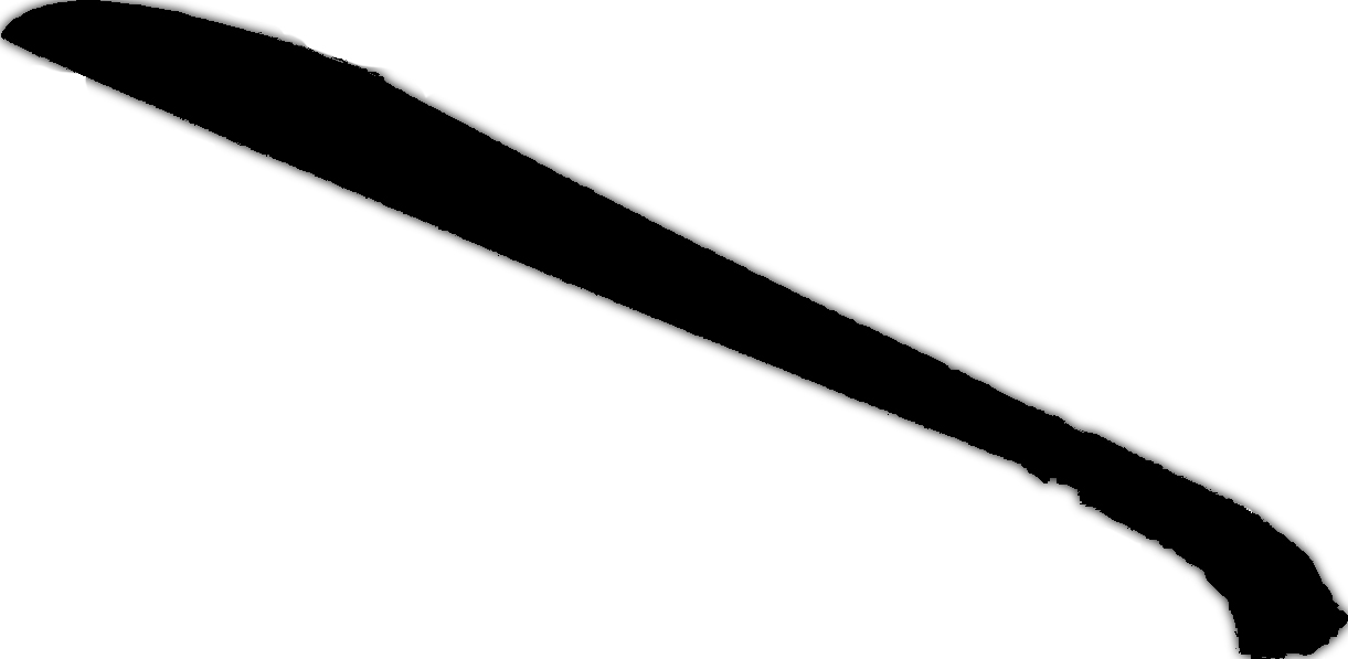 This image is my creation.